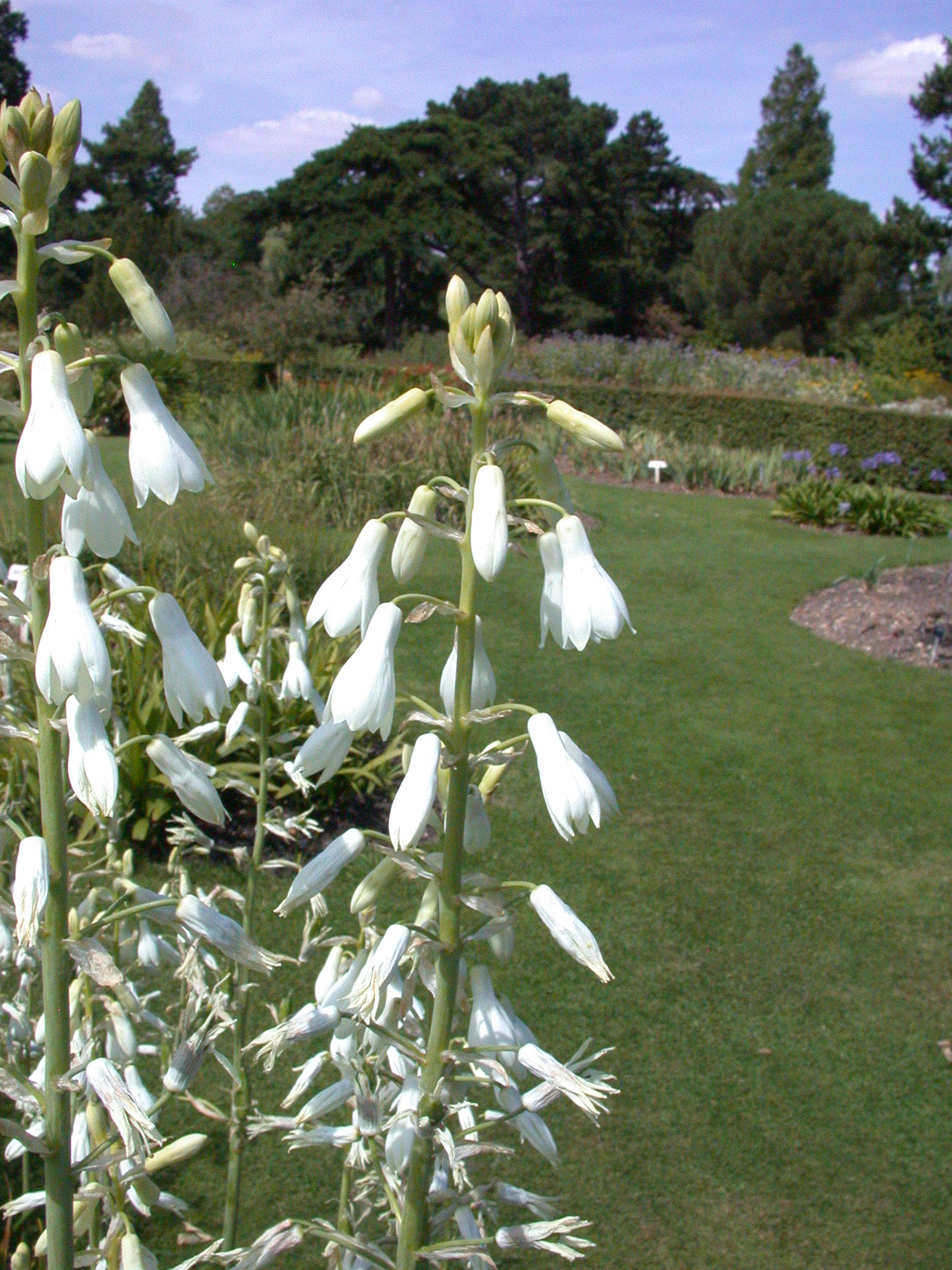 Galtonia candicans (syn. Galtonia candicans) Hyacinthaceae. Temp S Africa.""